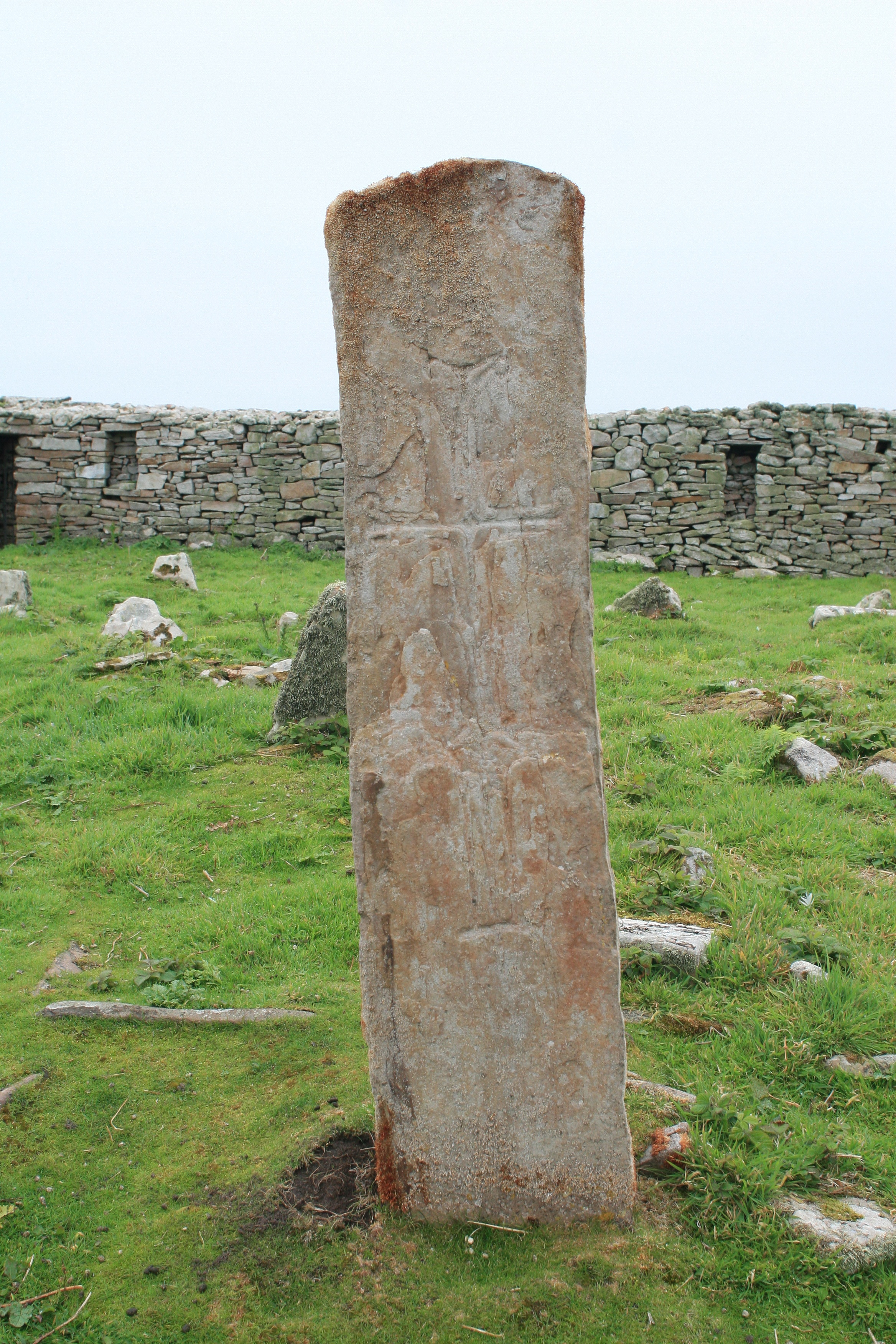 Slab with a serifed cross on its west face and small holes at its sides on the hight of its arms. Surveyed under no. 001.19 by O'Sullivan and Ó Carragáin.